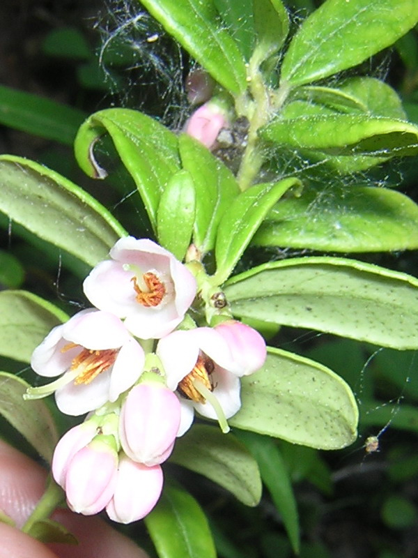 Cowberries